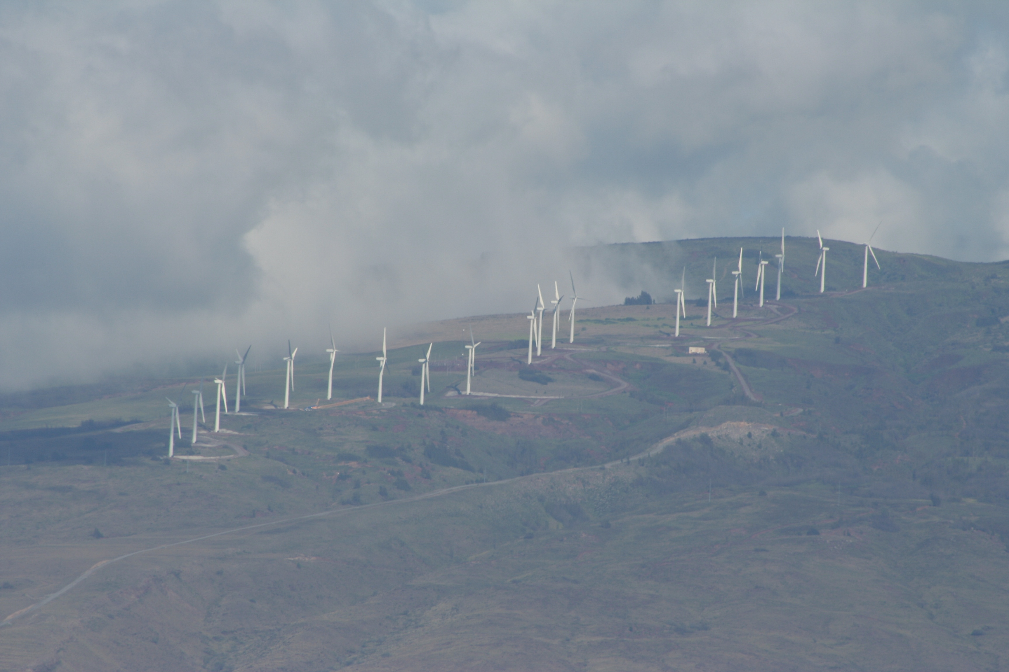 Kaheawa Wind Farm near Maalaea, Maui, with 20 GE Energy 1.5 MW wind turbines, for a total nameplate capacity of 30 MW; commissioned in 2006.